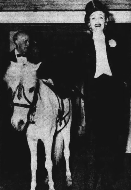 Photo of Marlene Dietrich at the April in Paris Ball held at the Waldorf-Astoria in 1959. She was substituting for Maurice Chevalier. The theme for the 1959 ball was a circus one; she's seen with one of the ponies who performed.